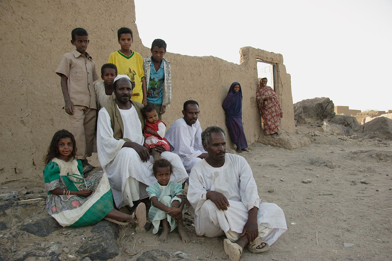 Al-Nadhir Tag al-Sir Bashir (النذير تاج السر البشير) with his daughter on his lap and family and house in the background. The author of the The Genius Diwan of the Manasir (ديوان عبقرية المناصير), a collection of the poems of Ibrahim 'Ali Salman, the poet of the Manasir tribe in Northern Sudan. (c) GFDL David Haberlah (Homepage of David Haberlah, )